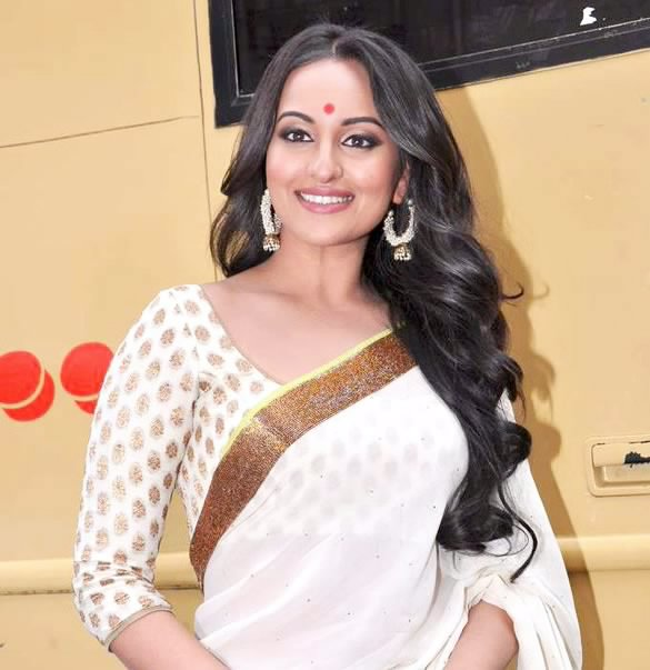 Sonakshi Sinha at Trailer launch of 'Lootera'